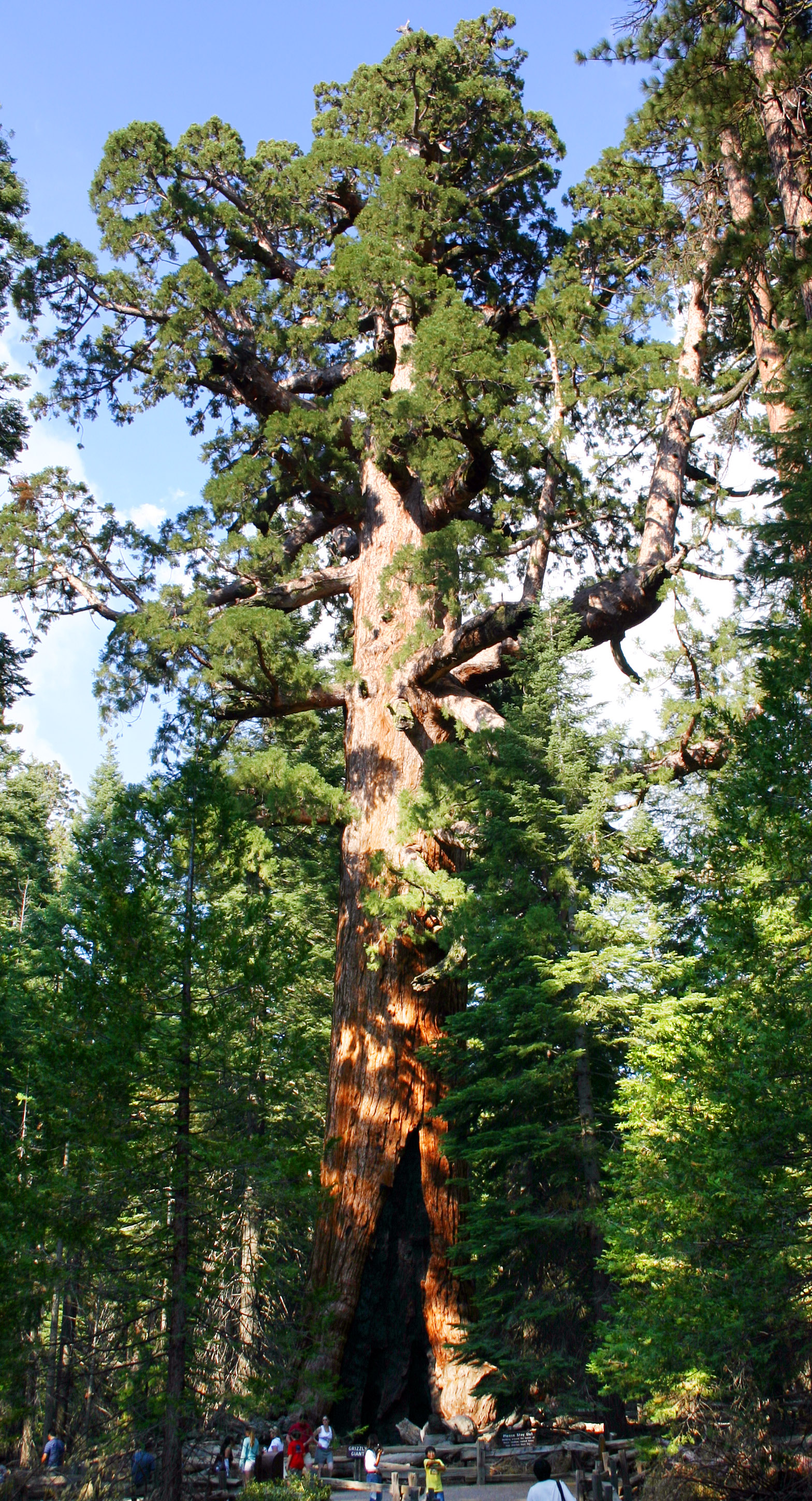 The "Grizzly Giant" is one of the main attractions in Mariposa Grove in Yosemite National Park. It is a landmark ancient Giant redwood (Sequoiadendron giganteum) tree. Note the size of the people at the bottom of the image for scale.